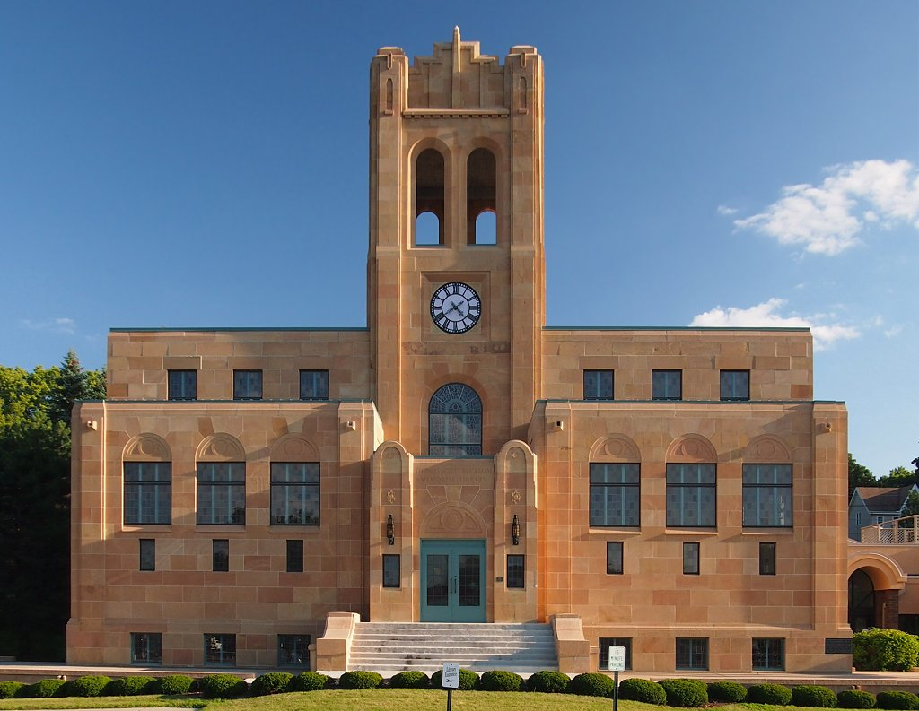 Thomas Scott Buckham Memorial Library, Faribault, Minnesota, USA. Photographed (from atop my car) near sundown in summer for light on a northern façade.